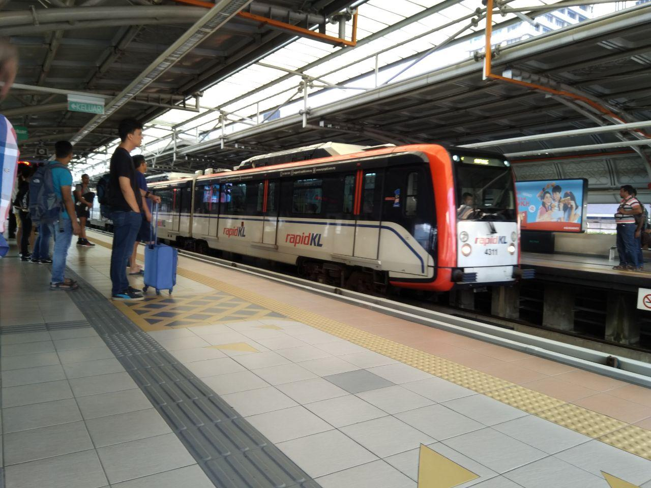 6-car CSR Zhuzhou Amy Articulated LRV at Masjid Jamek Station.